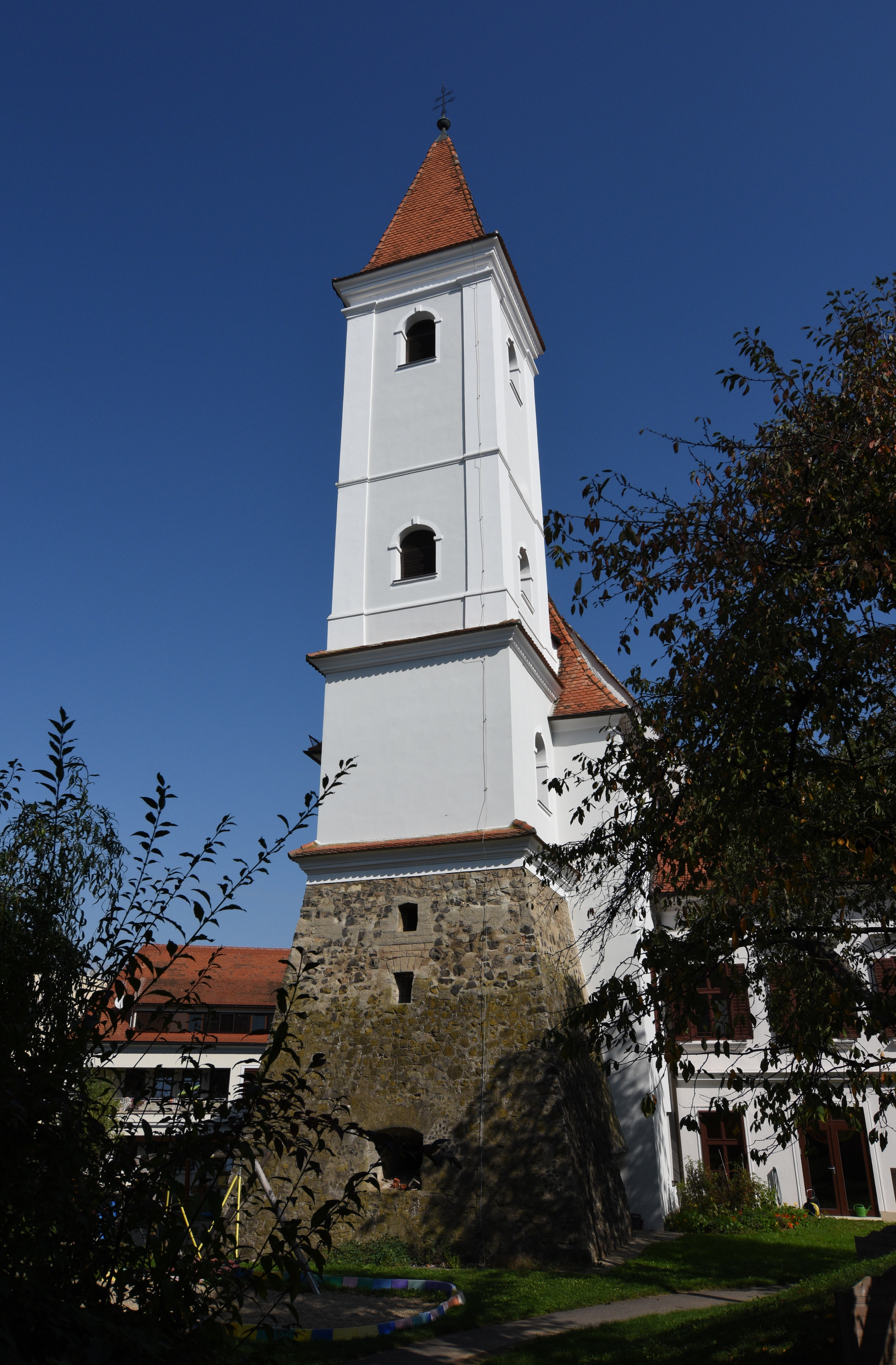 Schule, ehem. Franziskanerkloster (Feldbach)